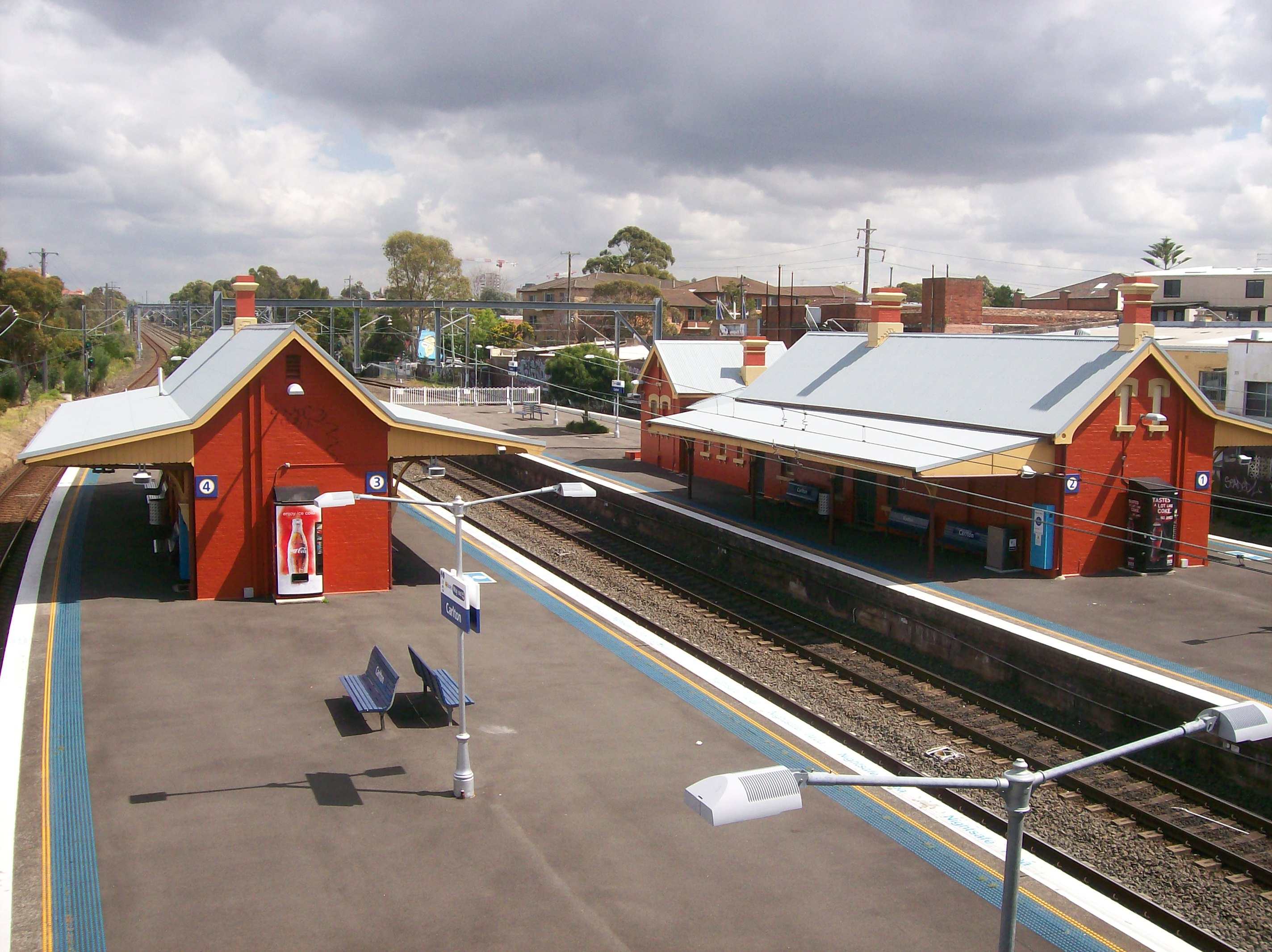 Carlton railway station platforms